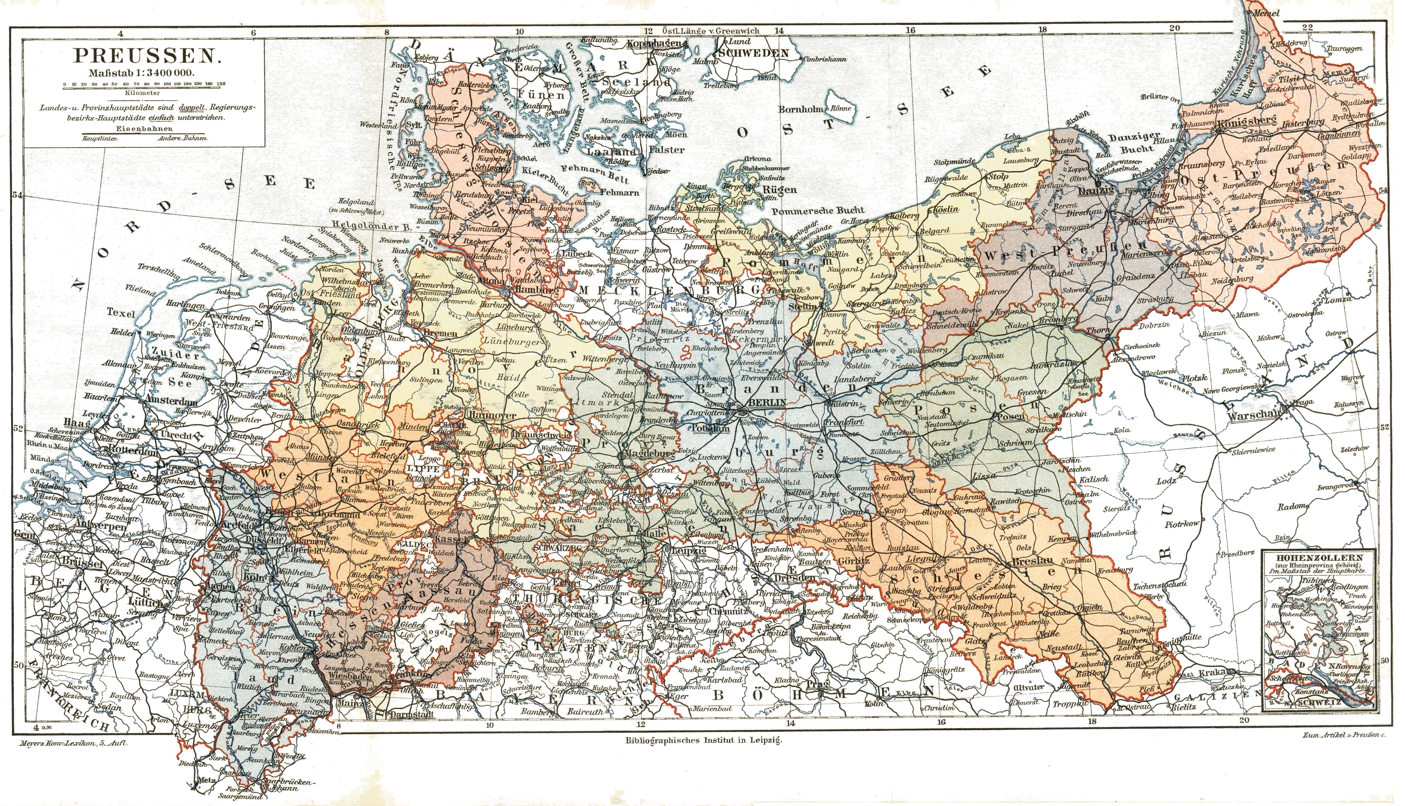 Kingdom of Prussia and its provinces around 1900